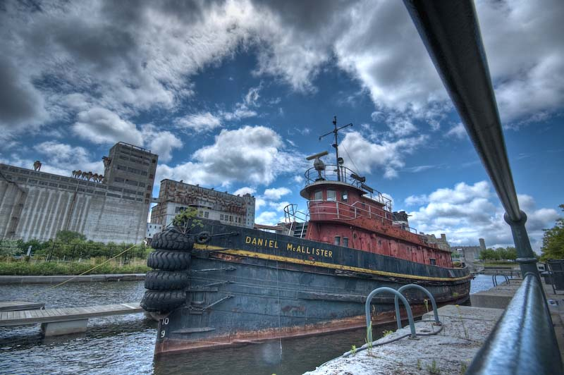 HDR from 3 exposures - Daniel McAllister tugboat docked at the Lachine Canal in Montreal, Quebec, Canada, North America